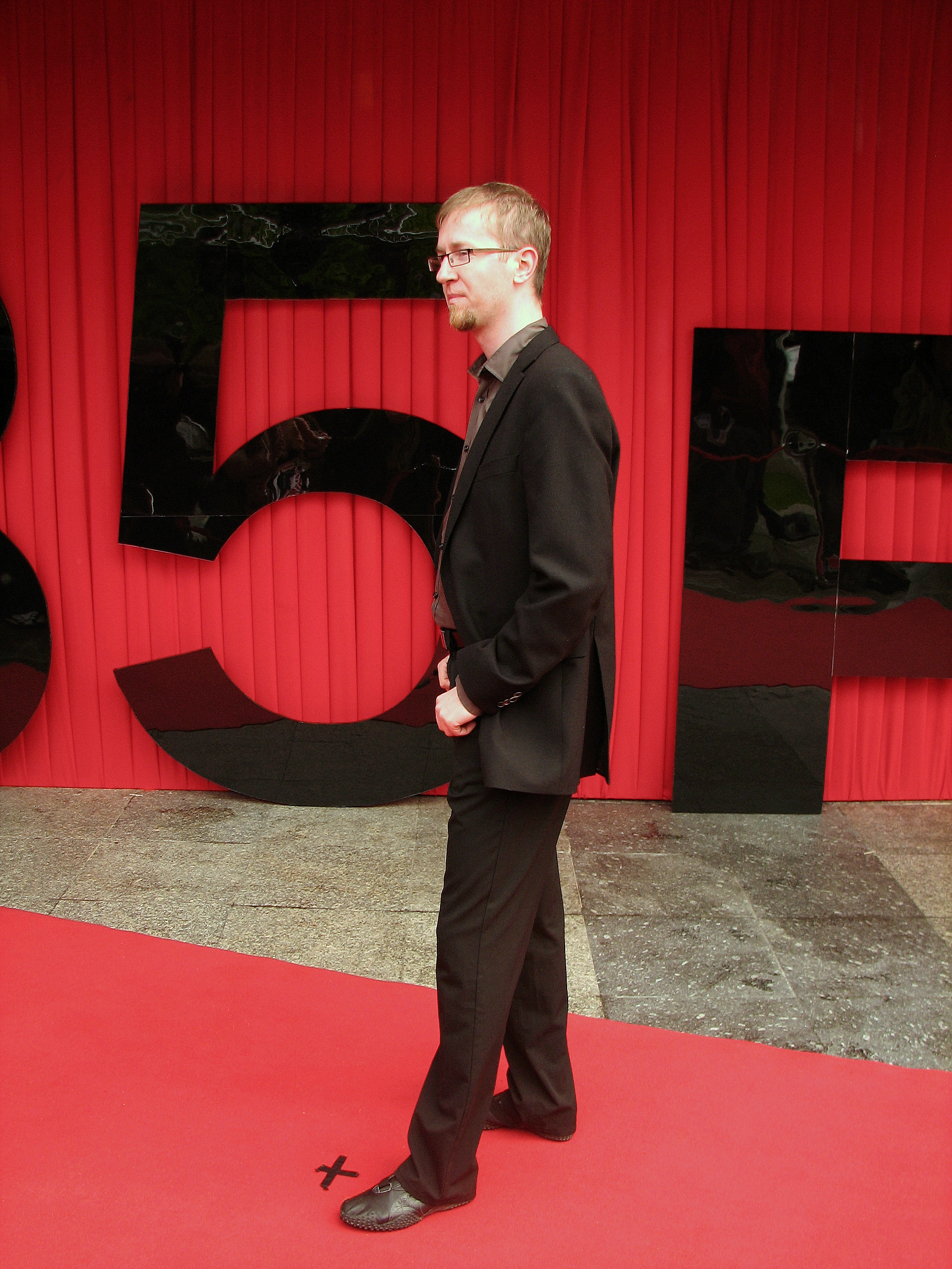 Tomasz Bagiński at opening of the XXXV Polish Film Festival in Gdynia 2010.